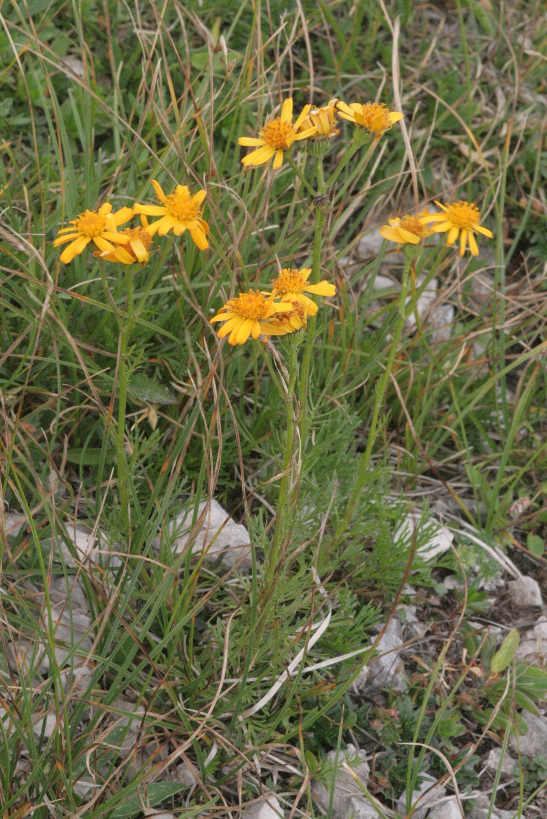 Senecio abrotanifolius